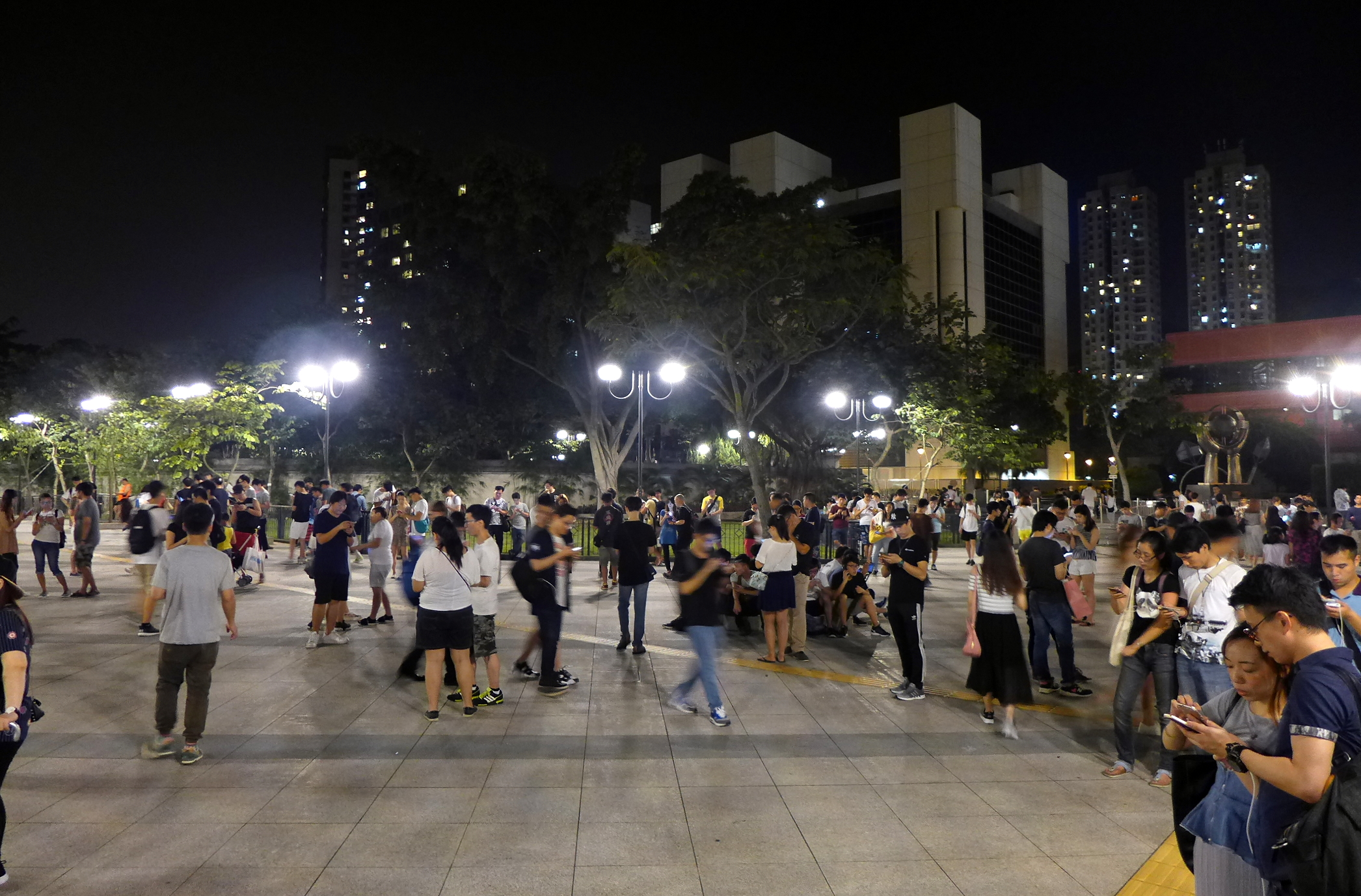 People play Pokemon Go in Shatin Park